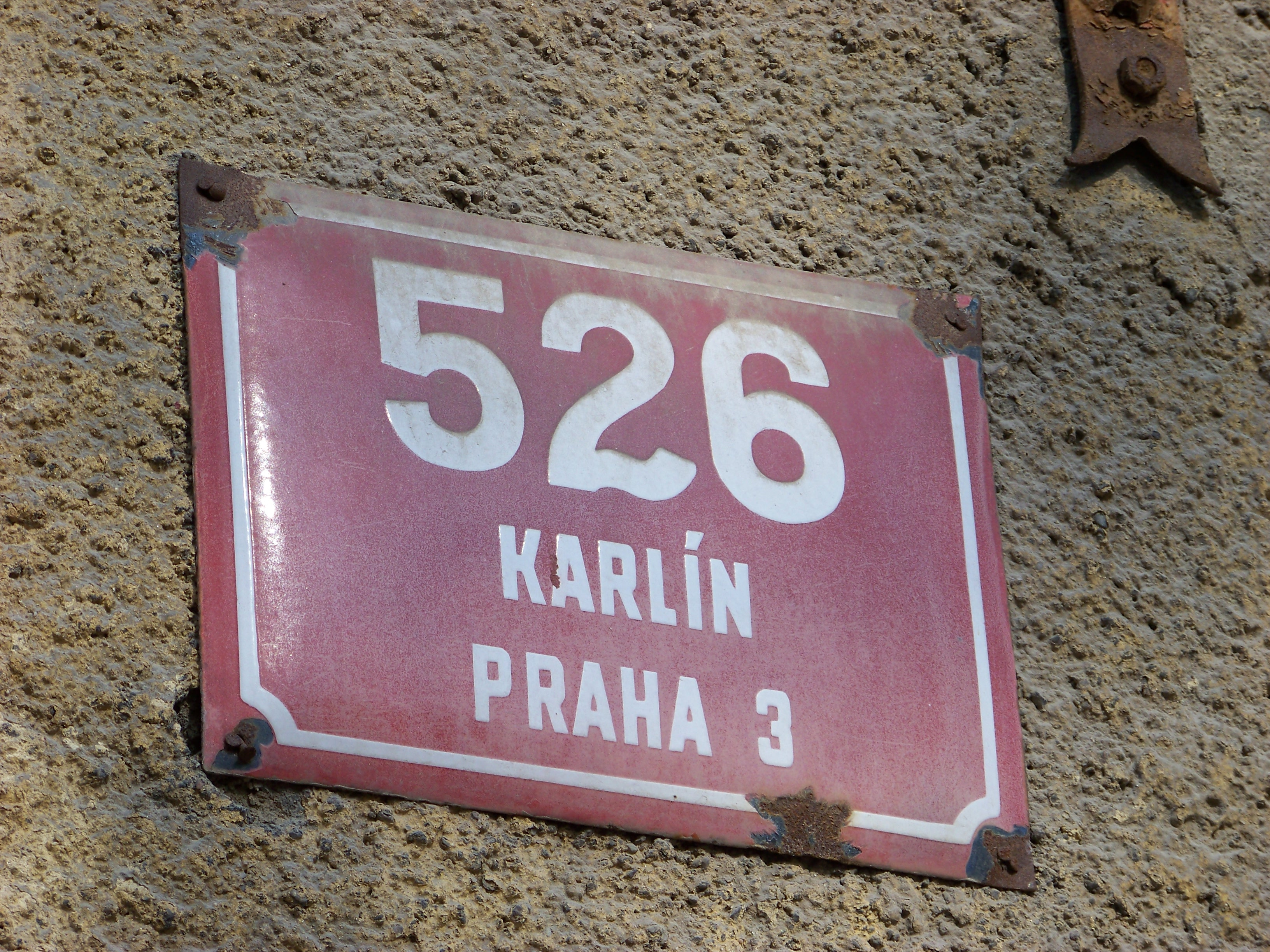 Prague-Karlín, the Czech Republic. Kubova 526/4, a house number sign with the old district number. - Google Maps - Google Earth